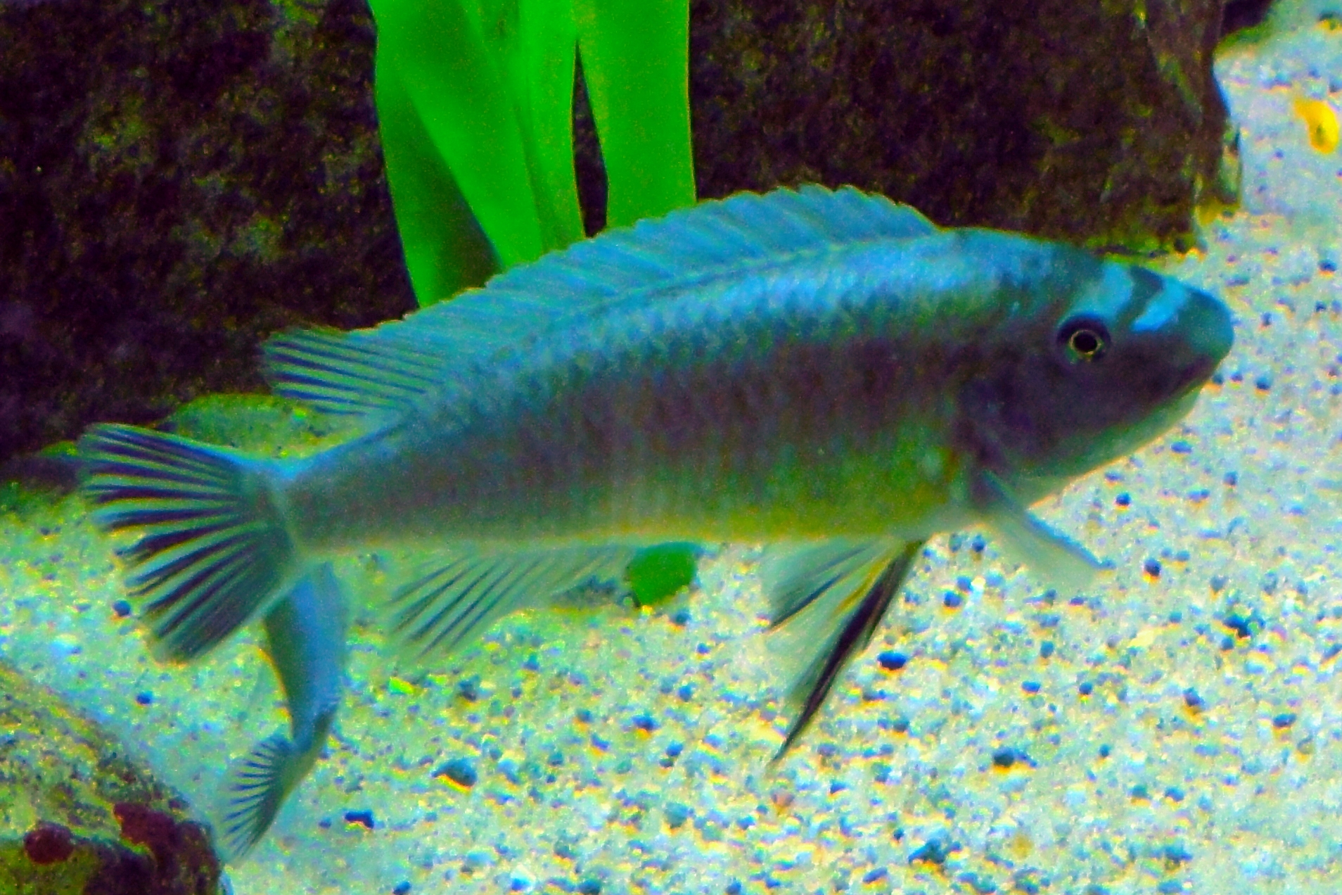 Labeotropheus trewawasae